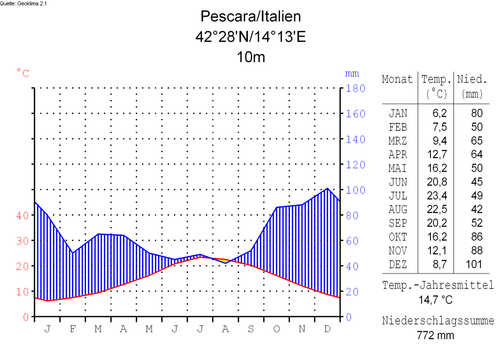 climate chart in the format by Walter and Lieth, metric, °Celsisus and millimeters, made with Geoklima 2.1